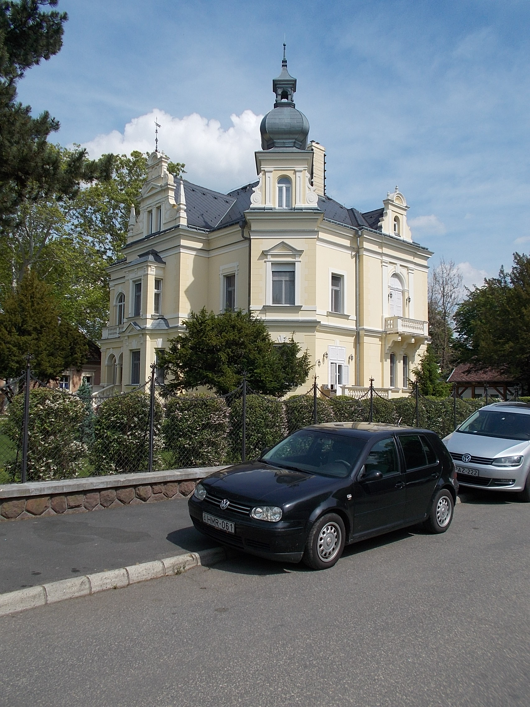 Thanhoffer Villa, Horthy Villa, College library, City Council owned exclusive guesthouse. Built in 1897. Listed. Now Kagyló Panzió (guesthouse). - 4 Petőfi sétány, Üdülőterület neighborhood, Siófok, Somogy County, Hungary.